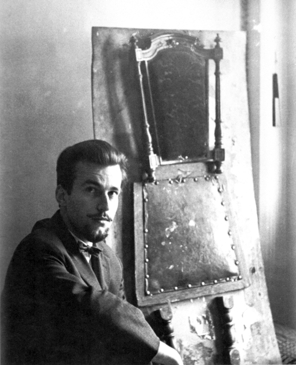 Photograph of the Finnish artist Juhani Harri (1939–2003).